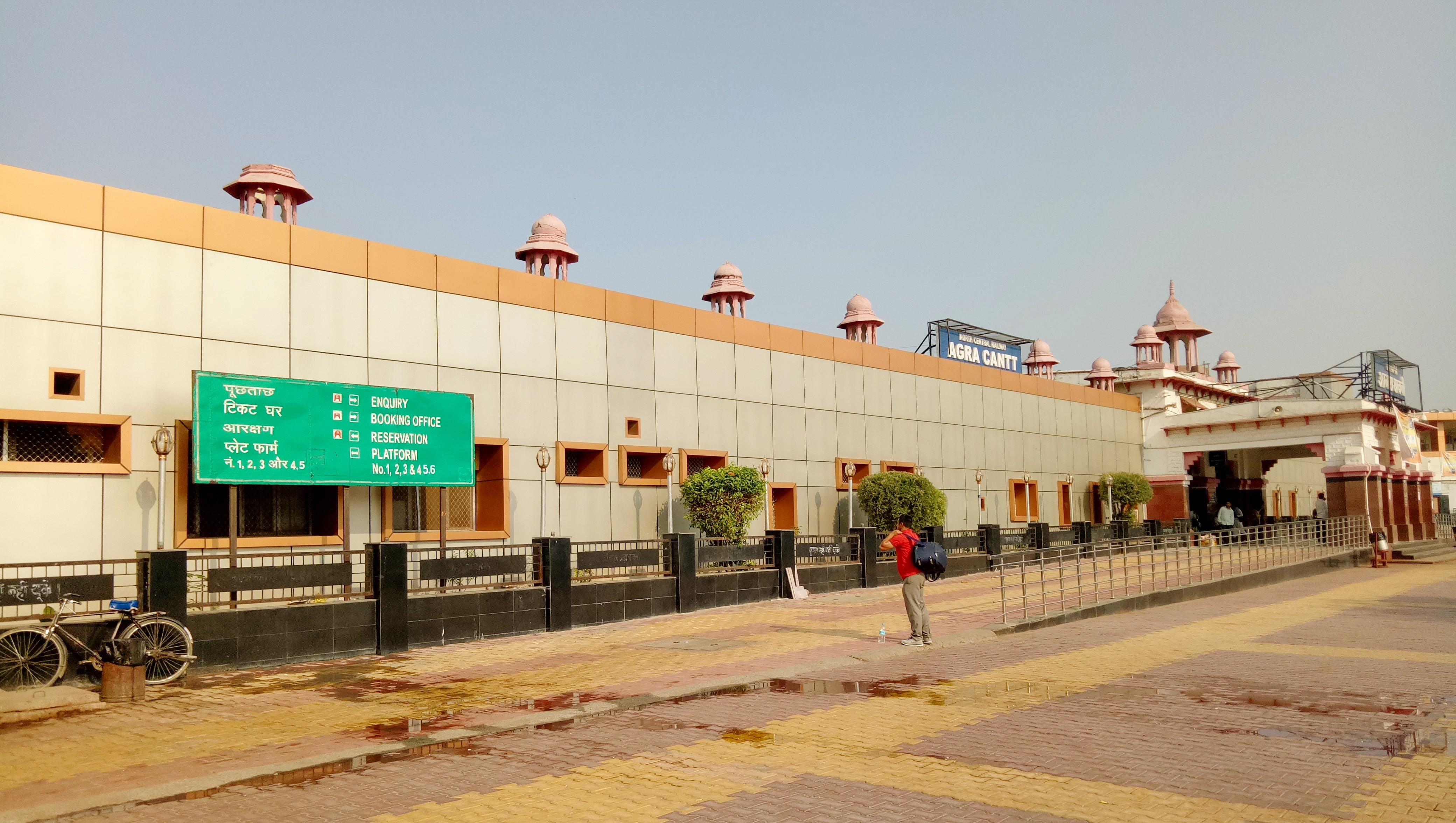 Agra Cant railway station